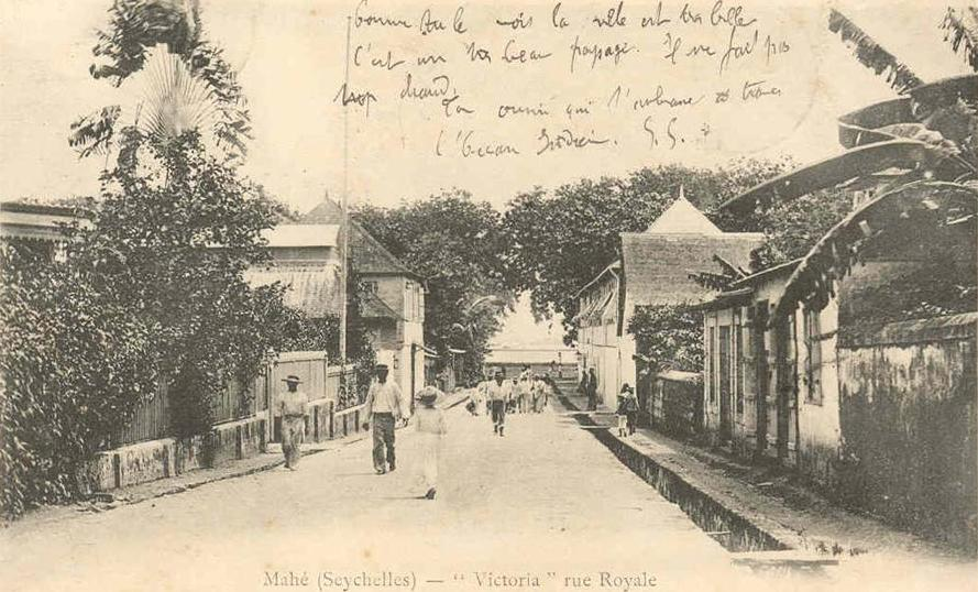 Rue Royale (Revolution Avenue) - Victoria, Mahe, Seychelles